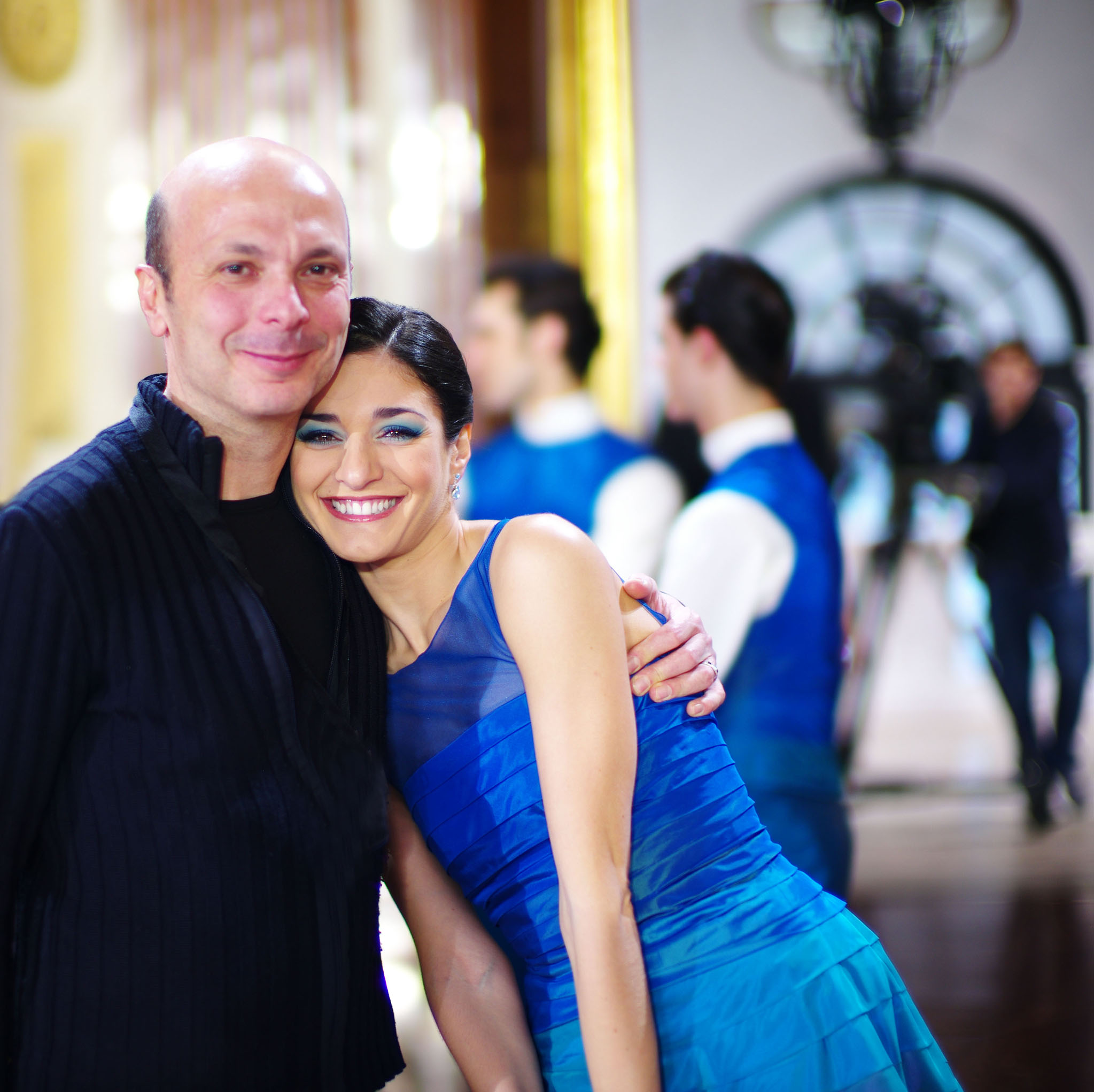 Choreographer Davide Bombana (left) and Vienna State Ballet dancer Ketevan Papava in the Belvedere, Vienna, on January 1, 2012.